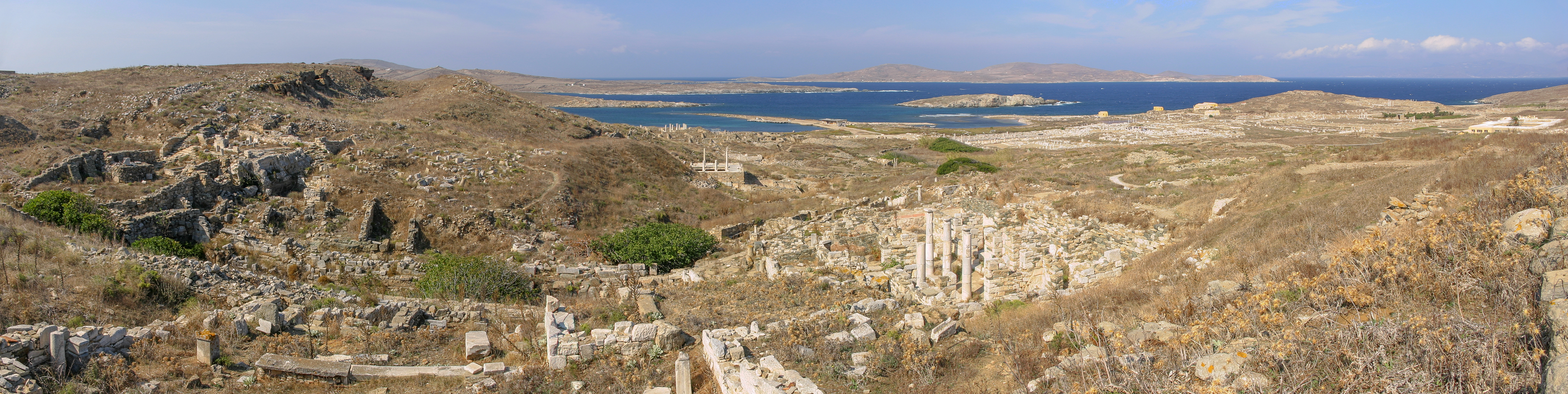 Panoramic view of the ruins ancient ruins of Dilos placed on the homonymous island. In the background the Island of Rinia Nisidia. The photograph was taken from Mount Kynthos aiming westwards.